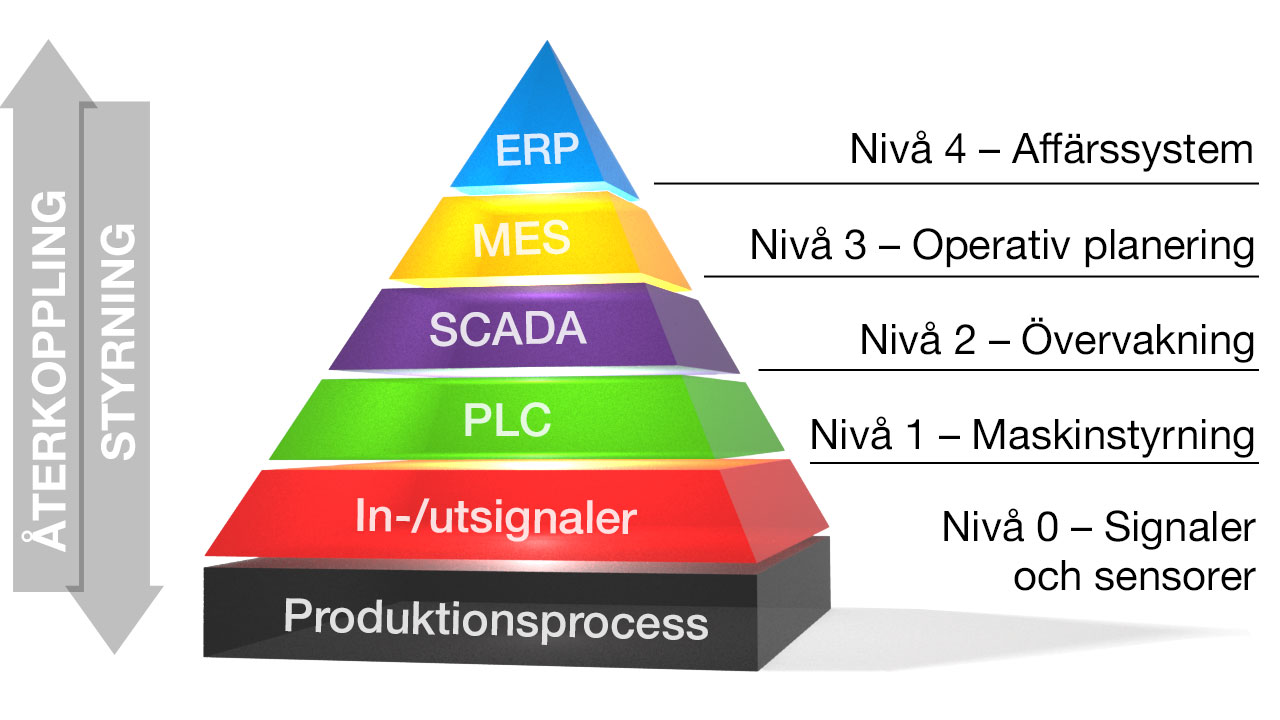 The automation pyramid, describing the five disciplines within industrial steering